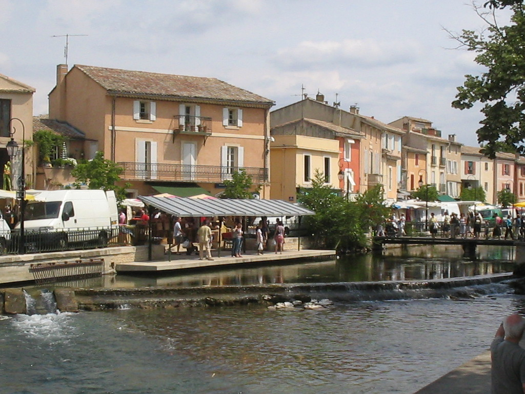 Village of L'Isle-sur-la-Sorgue (Vaucluse, France), june 2005.